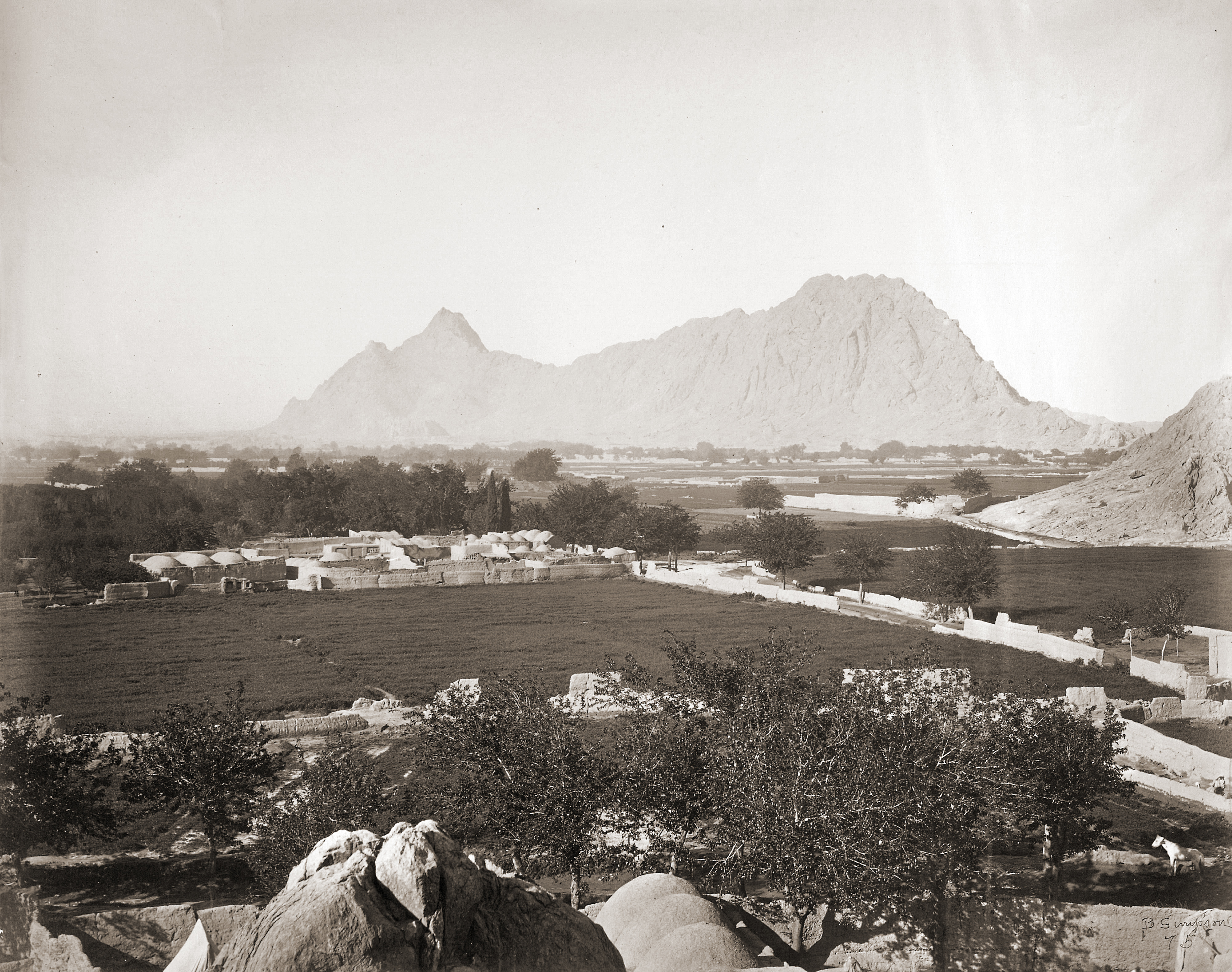 Chilzina & old Kandahar [Qandahar] from Picquet Hill. Photograph of Chilzina and old Kandahar from Picquet Hill from the 'Bellew Collection: Photograph album of Surgeon-General Henry Walter Bellew' taken by Sir Benjamin Simpson c.1881. Kandahar is the second largest city in Afghanistan and is situated in the south of the region. Although the old citadel was destroyed by Nadir Shah Afshar of Persia in 1738, the Battle of Maiwand was fought in its ruins in 1880. This conflict secured the rule of Abdur Rahman as the Amir of Afghanistan (1844-1901). Chilzina is a rock-cut chamber on the northern side of the old citadel that is accessed by forty steps. A Persian incription at the site reveals that the chamber was completed under the patronage of the Moghul Emperor Babur in the 16th century.